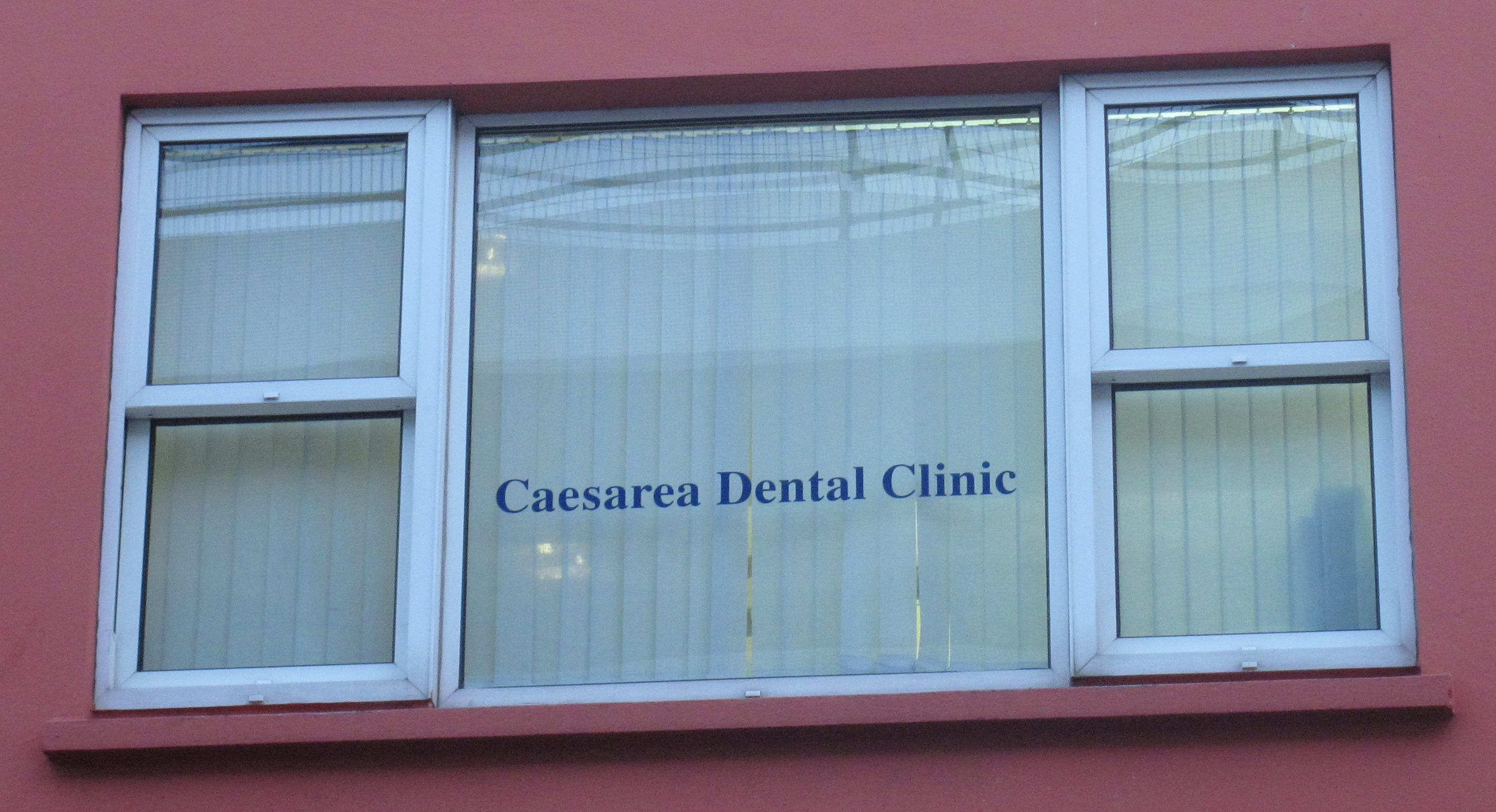 Caesarea Dental Clinic - The traditional Latin names of the Channel Islands (Caesarea for Jersey; Sarnia for Guernsey, Riduna for Alderney) derive (possibly mistakenly) from the Antonine Itinerary.